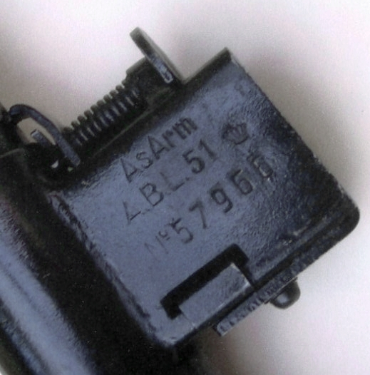 Details of stamp, Belgian Sten